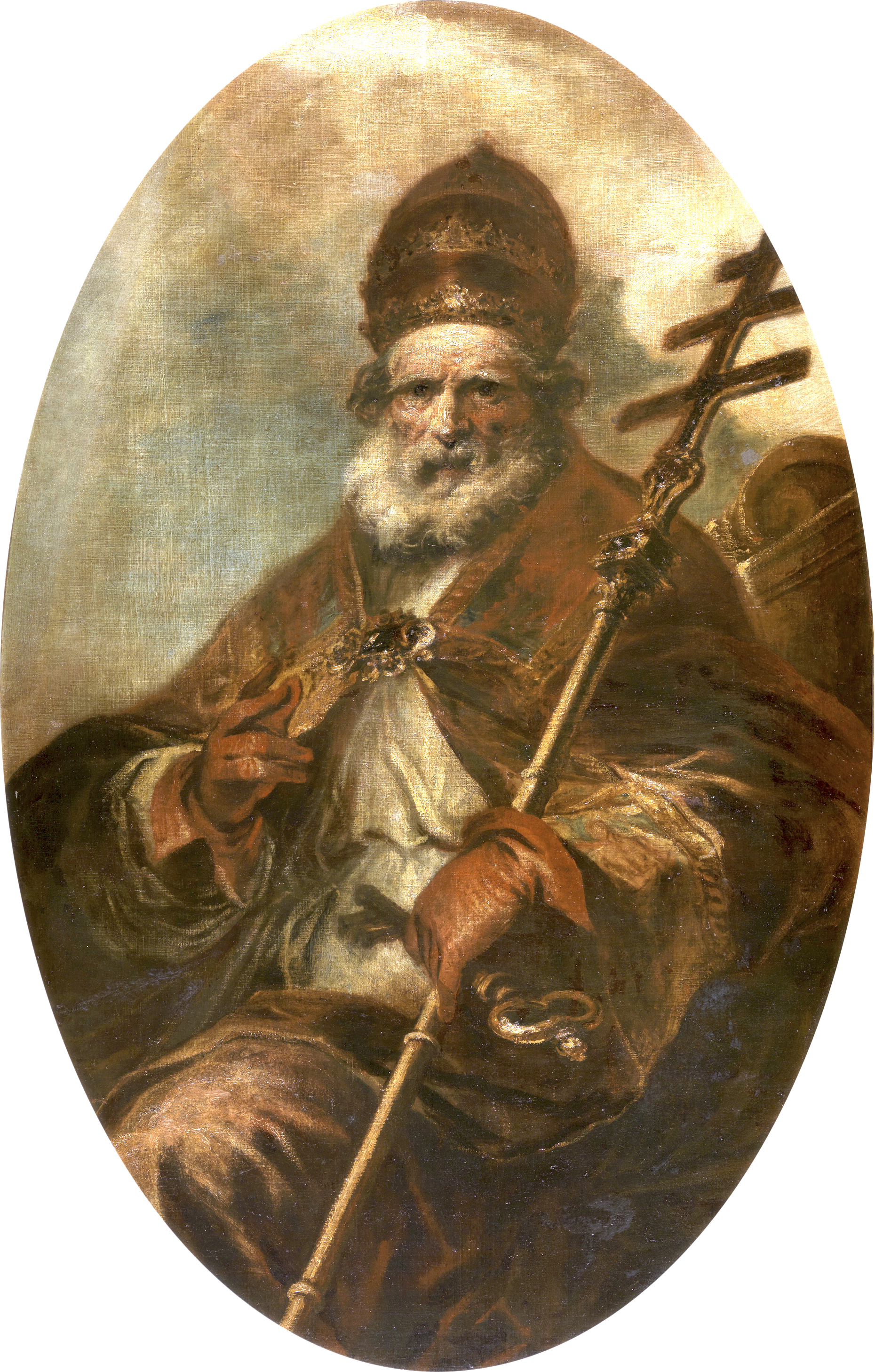 Francisco de Herrera el Mozo (spanish, 1622-1685): Saint Leo Magnus (pope Leo I), Prado Museum, Madrid, Spain